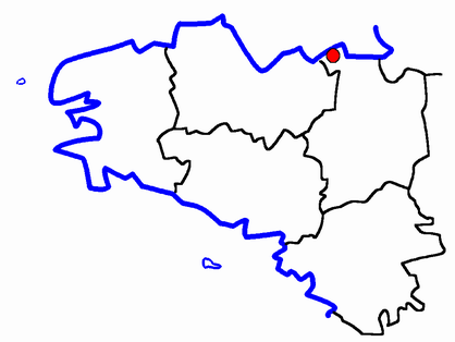 Description: Map for localisazion of cantons of Bretagne region in France Source: made by Hervé Tigier from another large map (published in 1990)